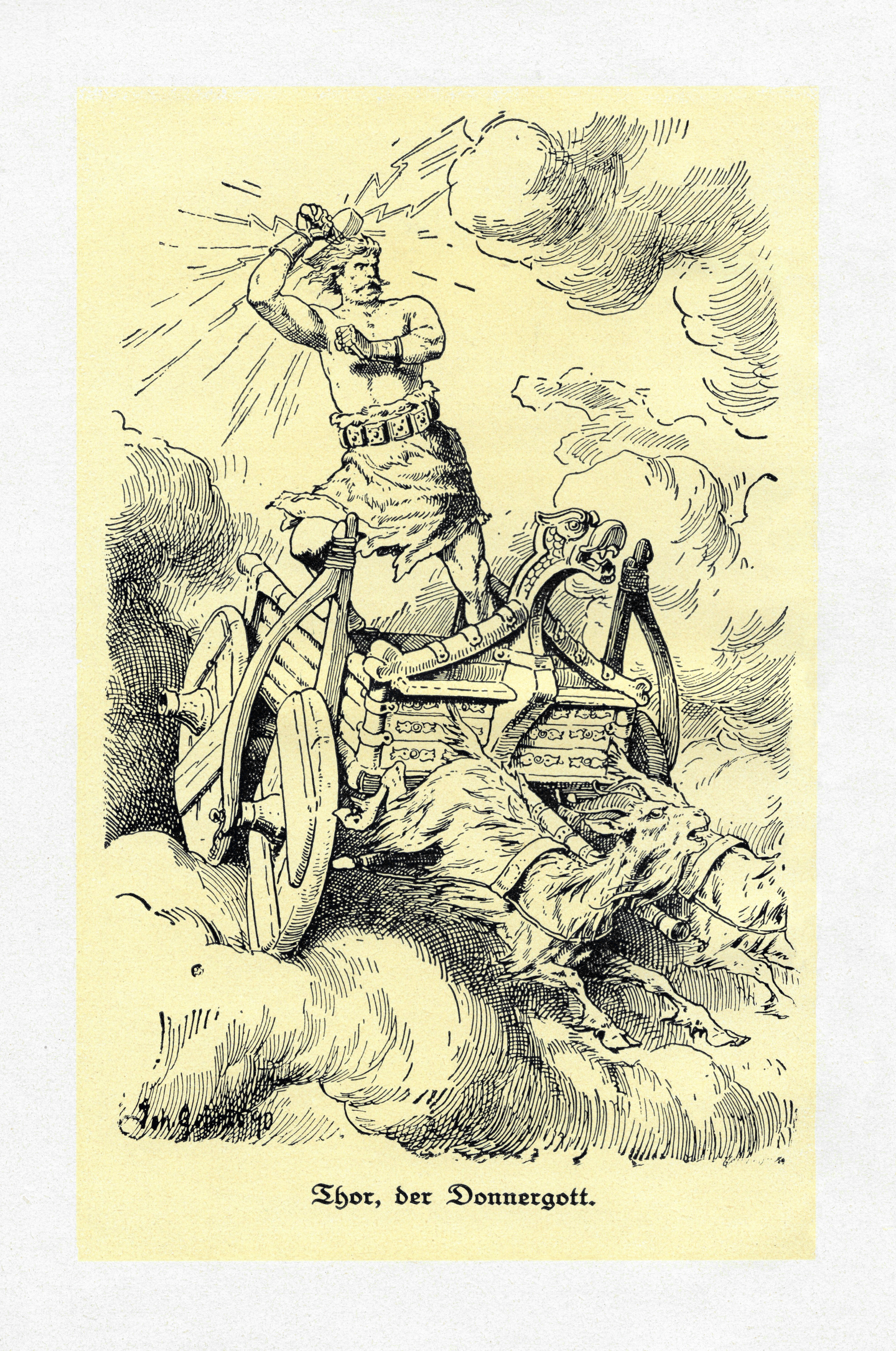 "Thor, der Donnergott". Frontispiece by Johannes Gehrts to Götter und Helden der alten Germanen : Der Edda nacherzählt by Frieda Amerlan (1841-1924, for the record). Restoration was pretty quick and easy; I don't intend to claim any copyright. Colour was adjusted against the original book, and the main editing involved dealing with some dust spots and the occasional bit near the spine where the paper didn't lay 100% flat. The yellow colour is most likely in imitation of German chiaroscuro woodcuts of the 16th and 17th centuries, albeit noone would mistake the woodblock engraving atop it for anything earlier than the 19th century. The book does not list a date in it, but the signature on the image is dated [18]90, Worldcat gives dates of 1900 and 1912, and given this is a rather high-quality edition, I'm going to presume it would have predated WWI and the economic collapse that followed. A variant, redrawn by Eduard Ade, is available at File:Thor_by_Johannes_Gehrts.jpg and was published in 1901, so I suspect this tends towards the earlier side of the range.